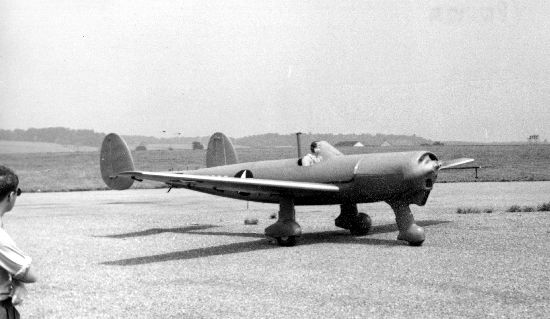 A Fleetwings YPQ-12A taxis in preparation for a flight.